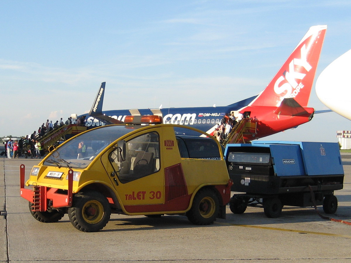 TALET 30 aircraft tow-tractor (Slovakia)